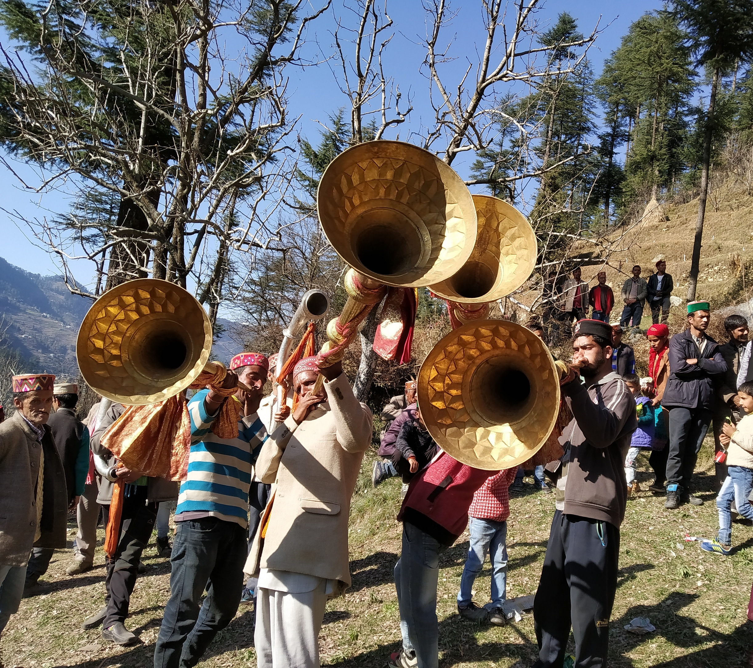 This photo has been taken in the country: India